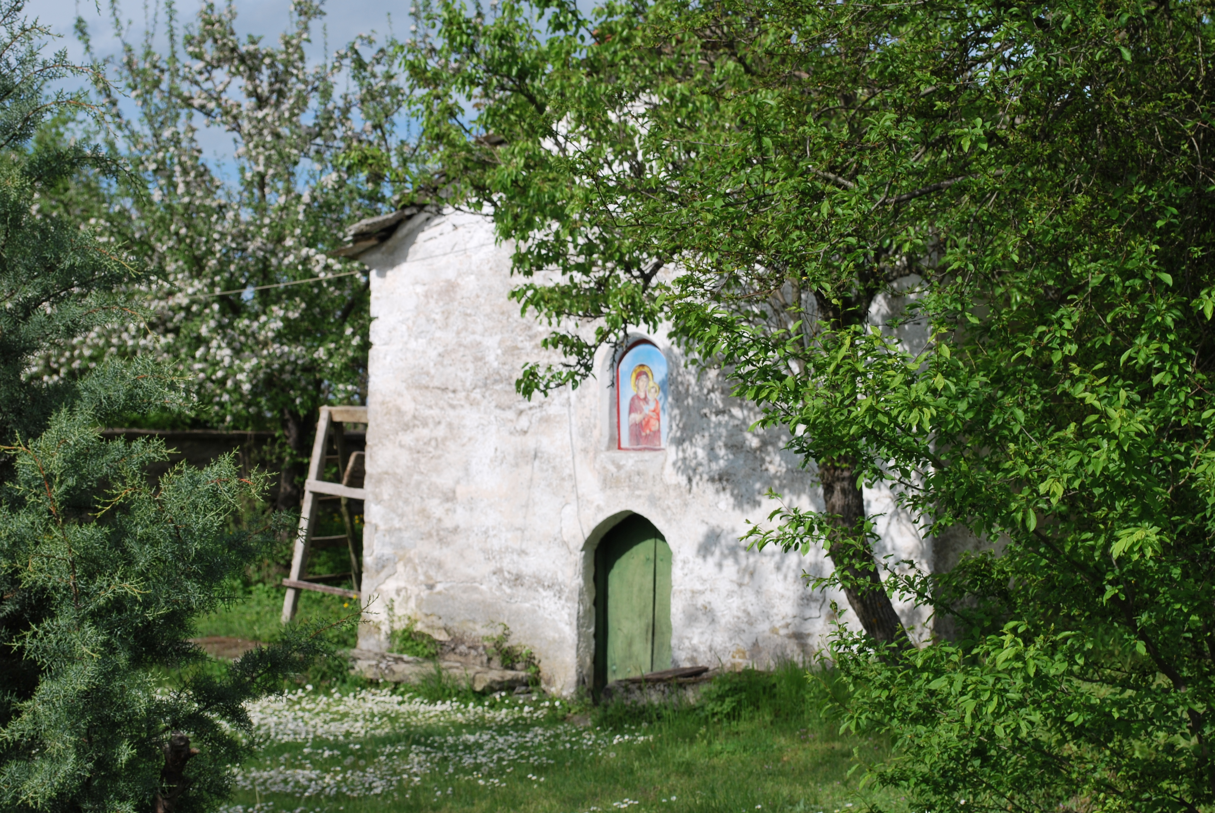 Dormition of the Theotokos Church i Divlje, Macedonia